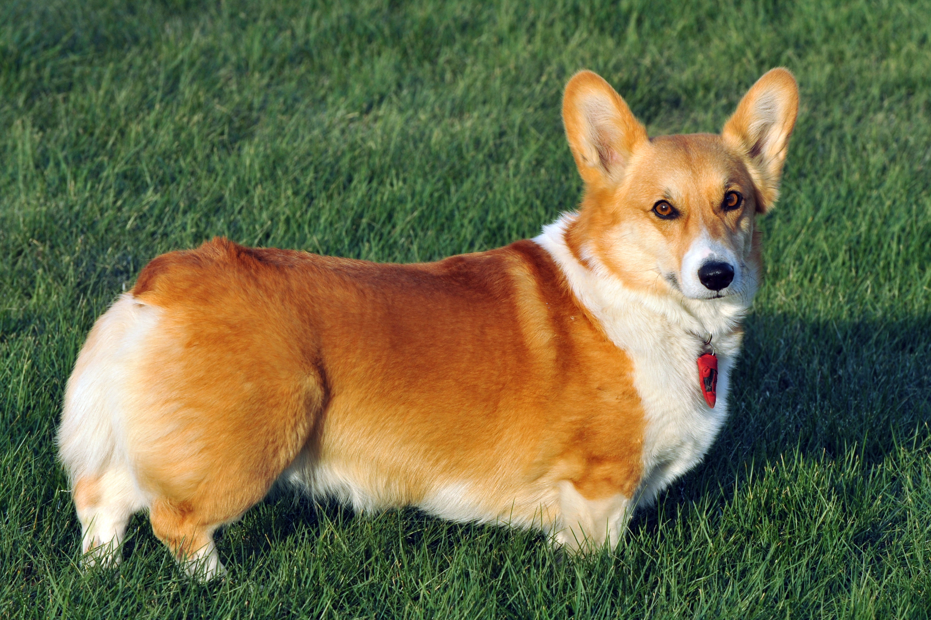 Welsh Corgi Pembroke